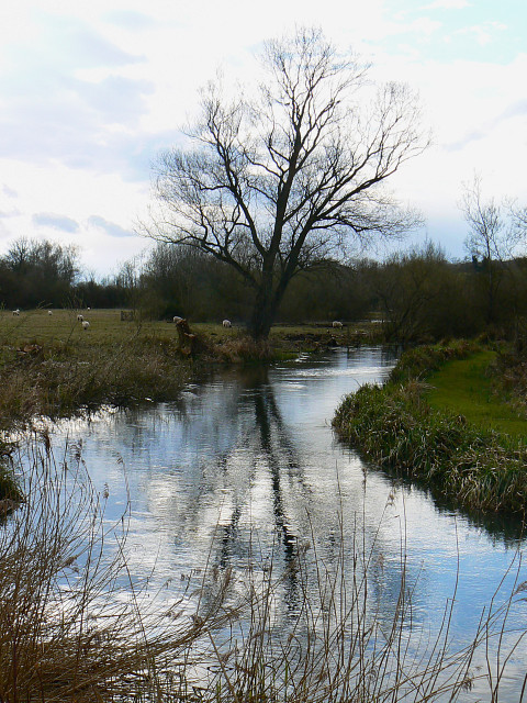 River Kennet west of Axford The sheep are back in the fields on the last day of Greenwich Mean Time.